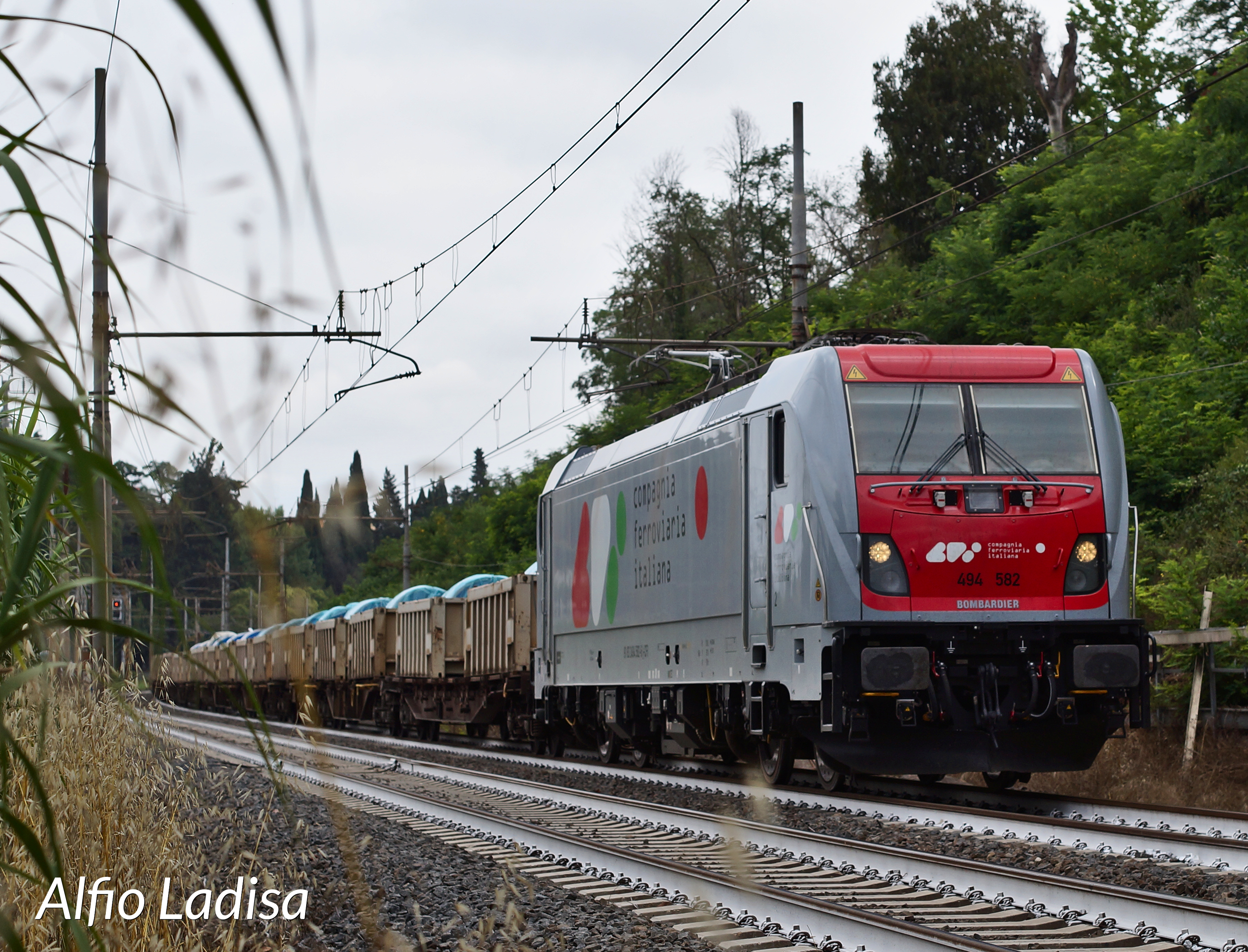 La E.494.582 di CFI in transito a nord di Roma con un treno merci